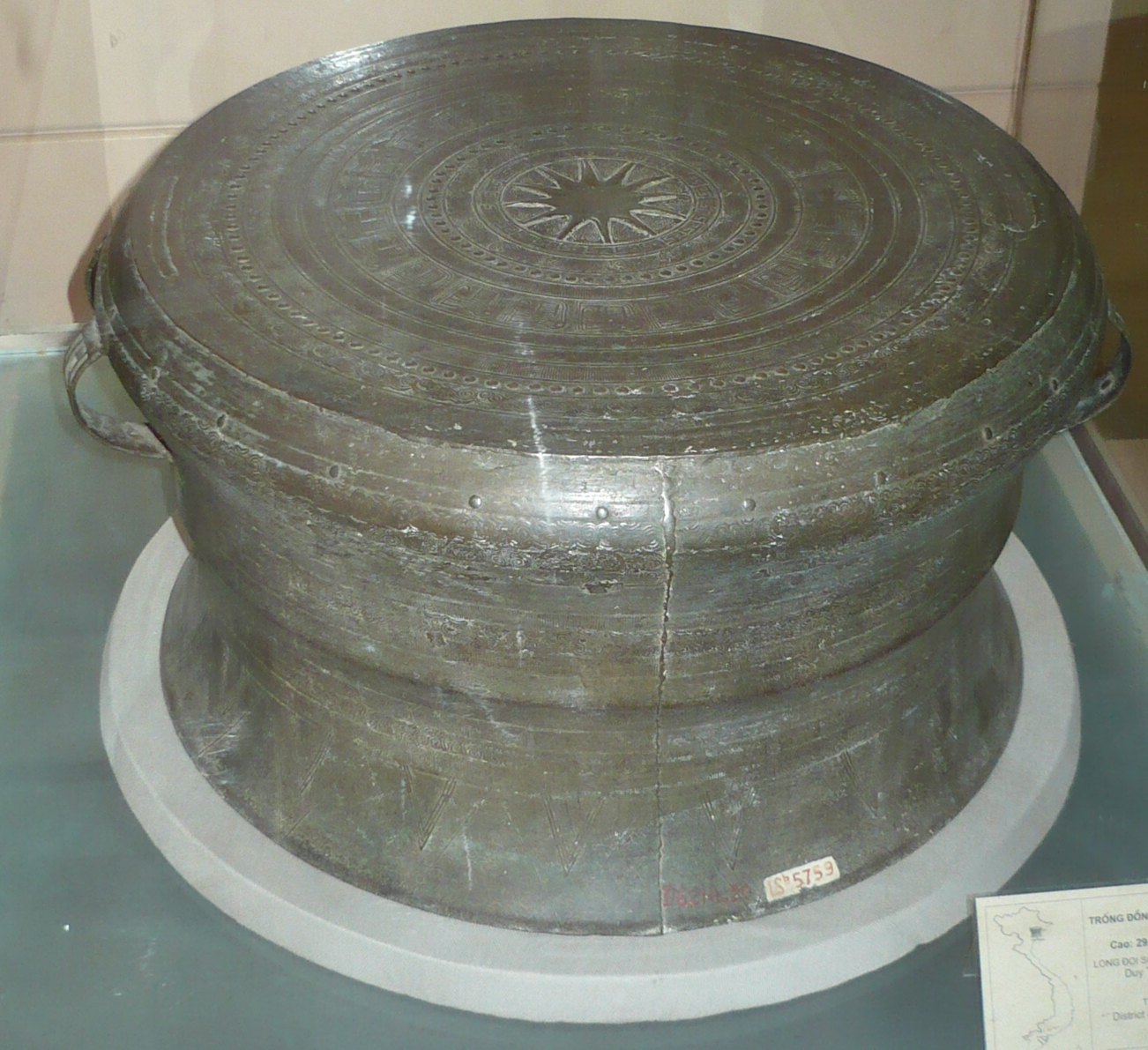 LONG ĐỌI SƠN BRONZE DRUM (TYPE IV - HEGER) Duy Tiên District, Hà Nam Province h: 29.6 cm, d: 49.6 cm